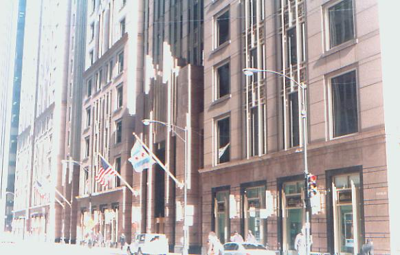 Franklin Street Facade of Franklin Center in Chicago, Illinois